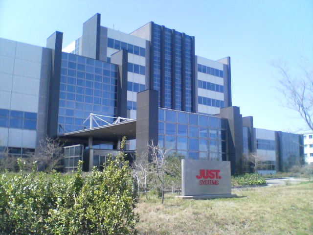 Justsystems Corporation (ジャストシステム) 's headquarter office at Tokushima, Japan